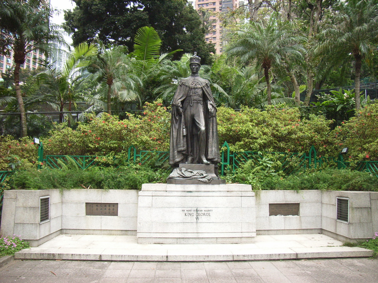 香港動植物公園 Hong Kong Zoological and Botanical Gardens NBG626